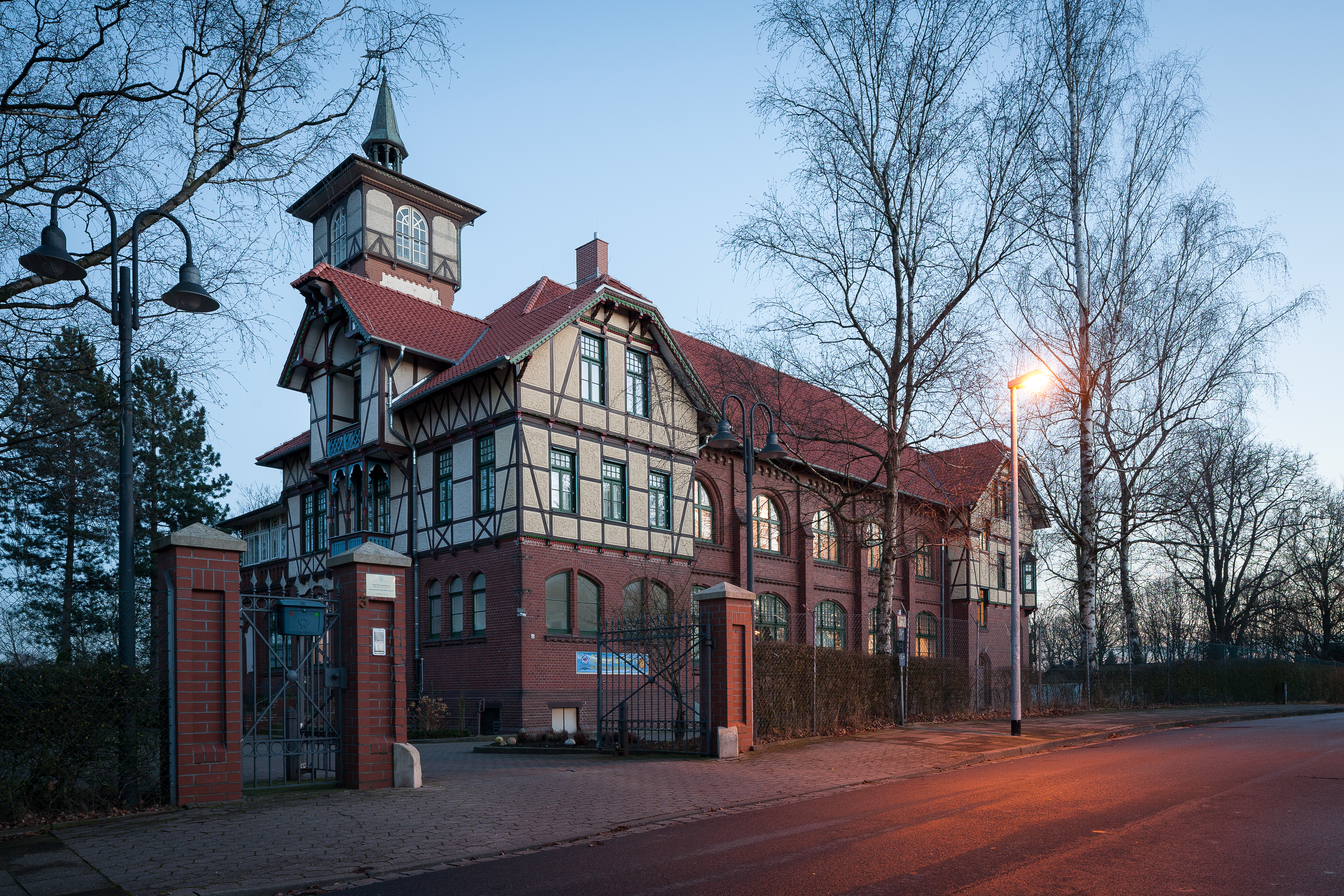 Former restaurant building "Ahlemer Turm" located in Hanover, Germany.